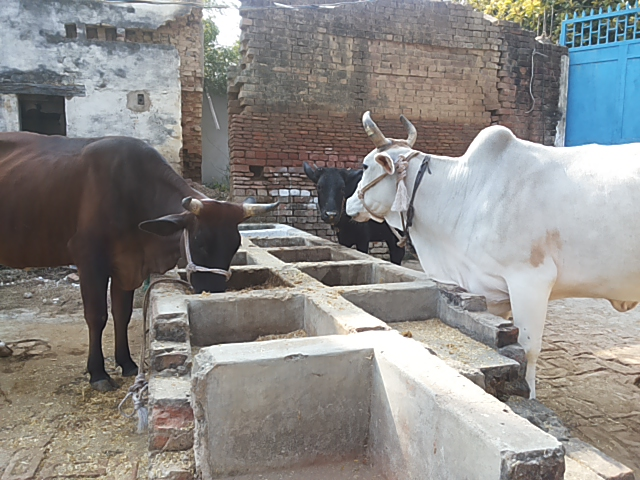 Cows in Mirzapur, Uttar Pradesh, India